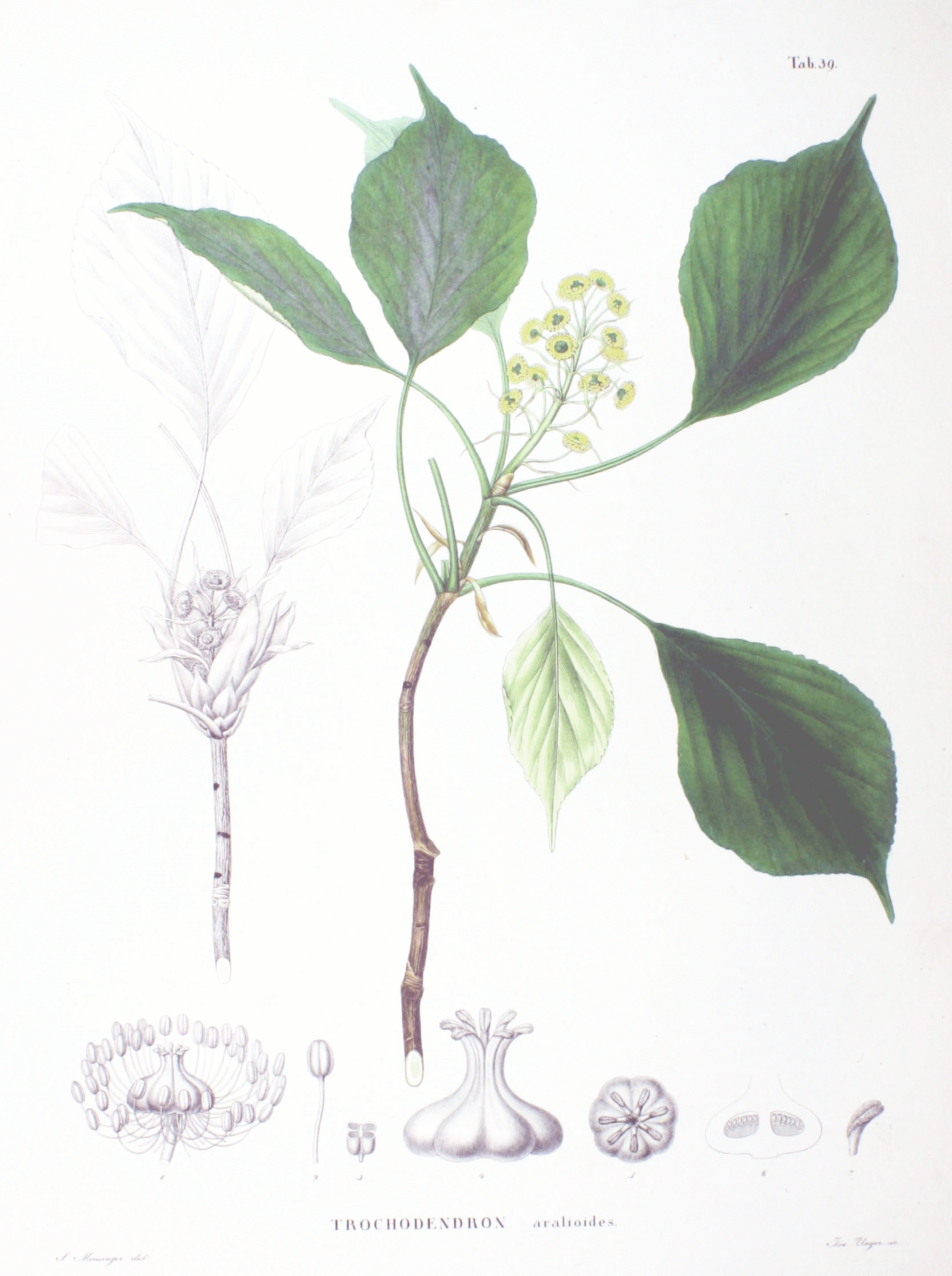 Trochodendron aralioides Plate from book